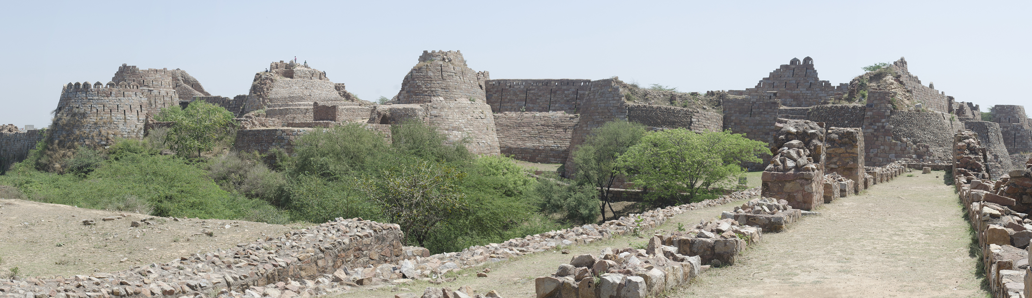 Panoramic view of the Tughlaqbad Fort with its massive bastions